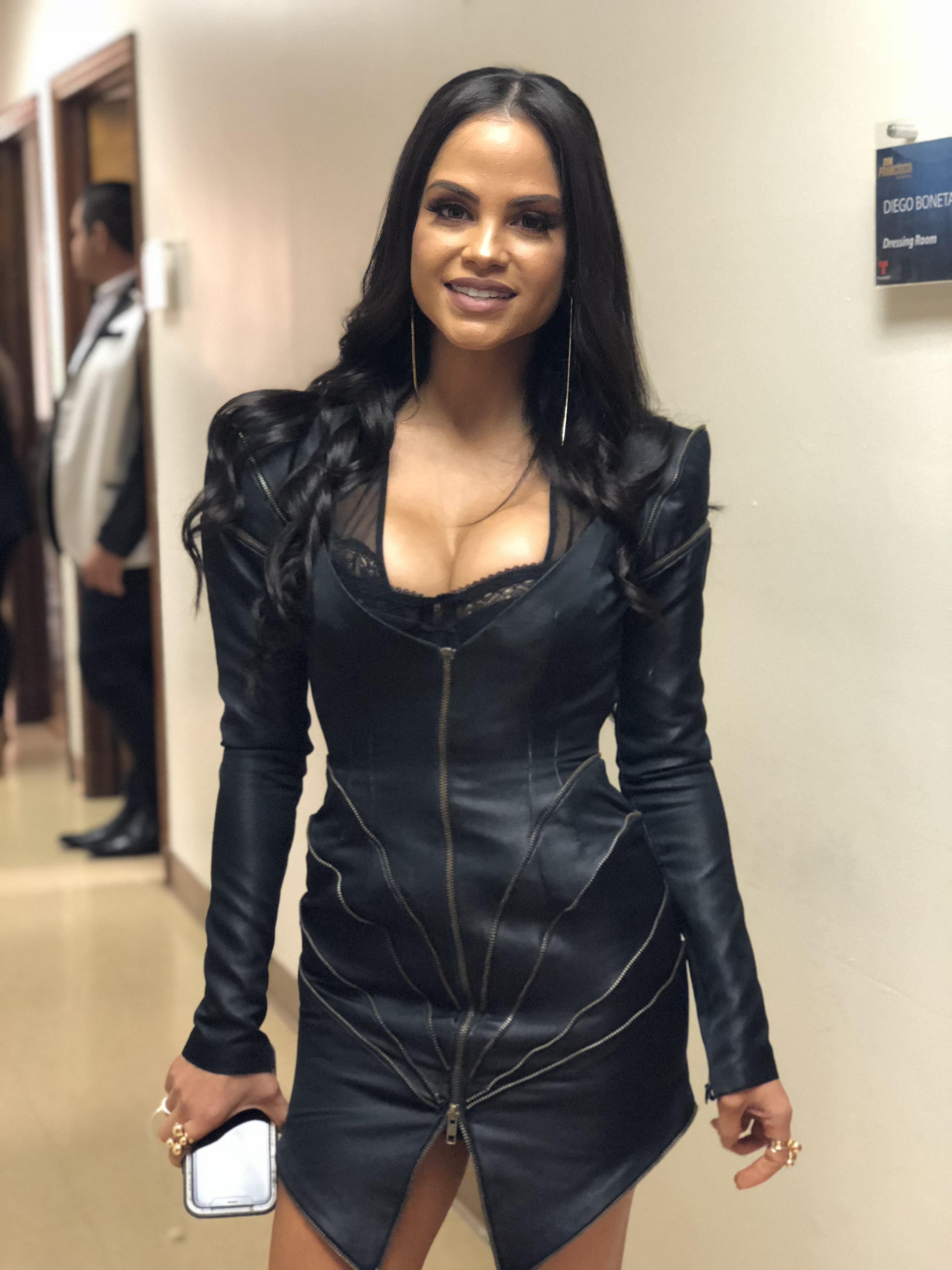 The photo was taken of Natti Natasha before recording her performance on "Don Francisco Te Invita."